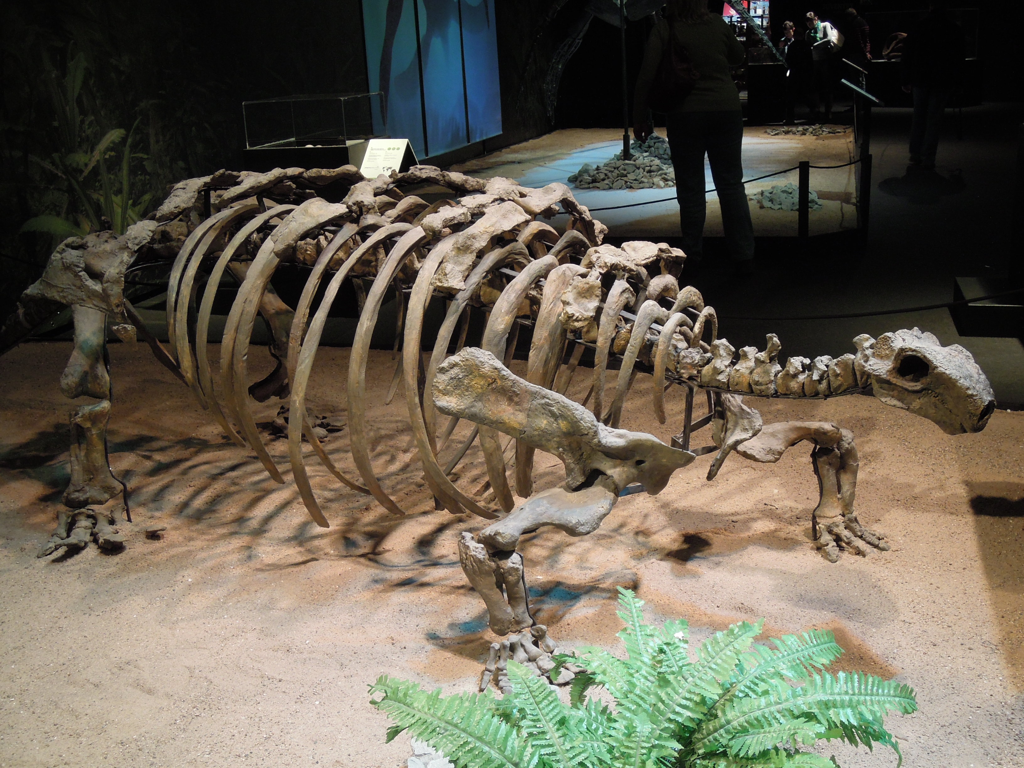 Talarurus plicatospineus, Dinosaurium exhibition, Prague, Czech Republic